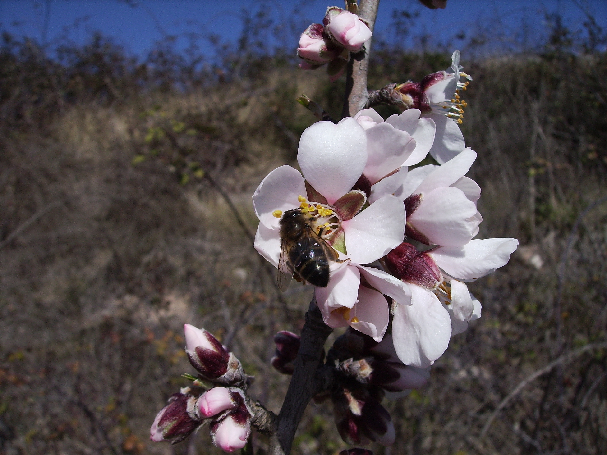 Beee (apis mellifica) on a almond tree, Castelltallat, Catalonia